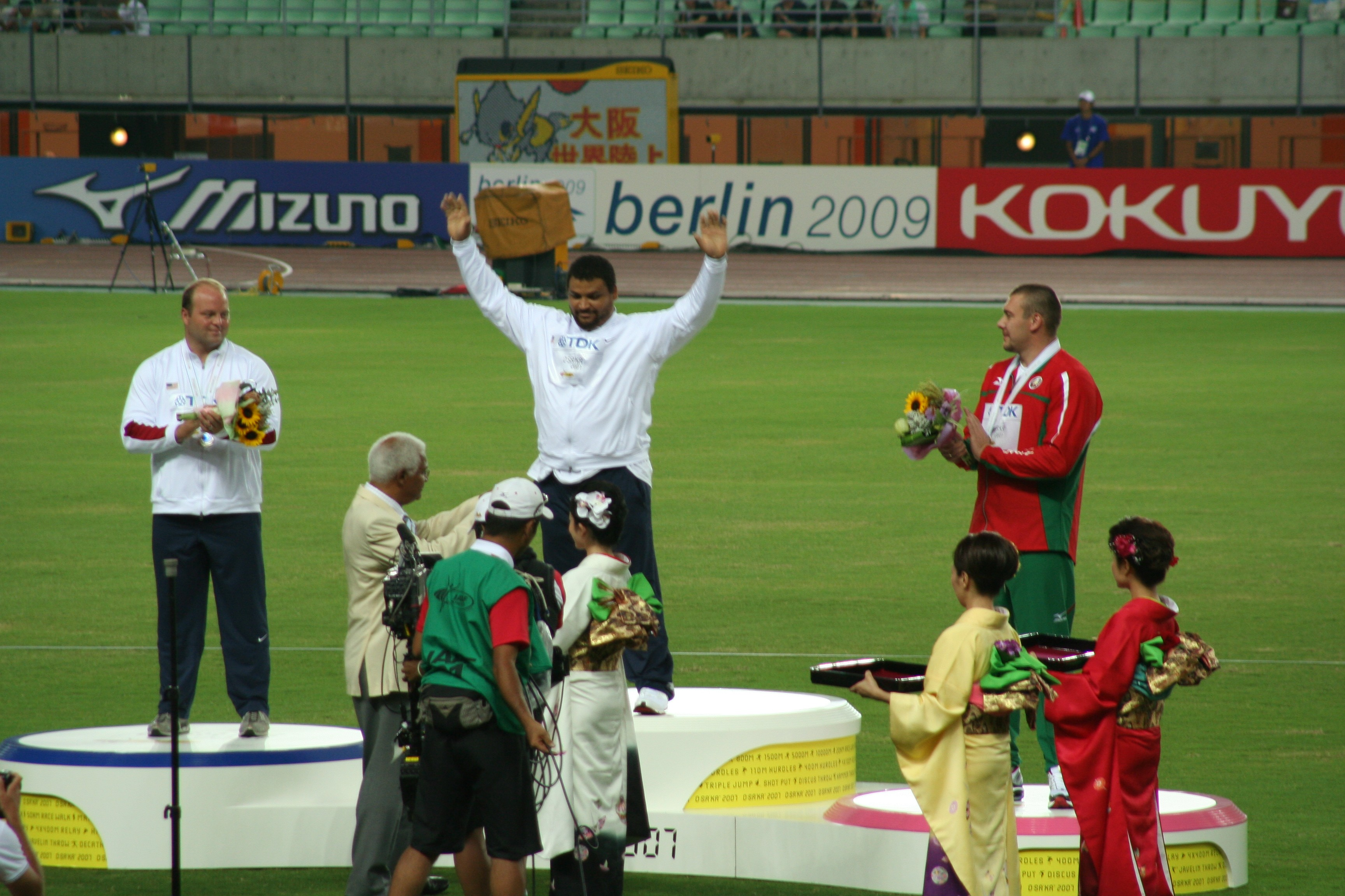 World Athletics Championships 2007 in Osaka - Men's Shot Put Victory Ceremony with winner Reese Hoffa (Middle), Second Adam Nelson (Left), Third Andrei Mikhnevich (Right)